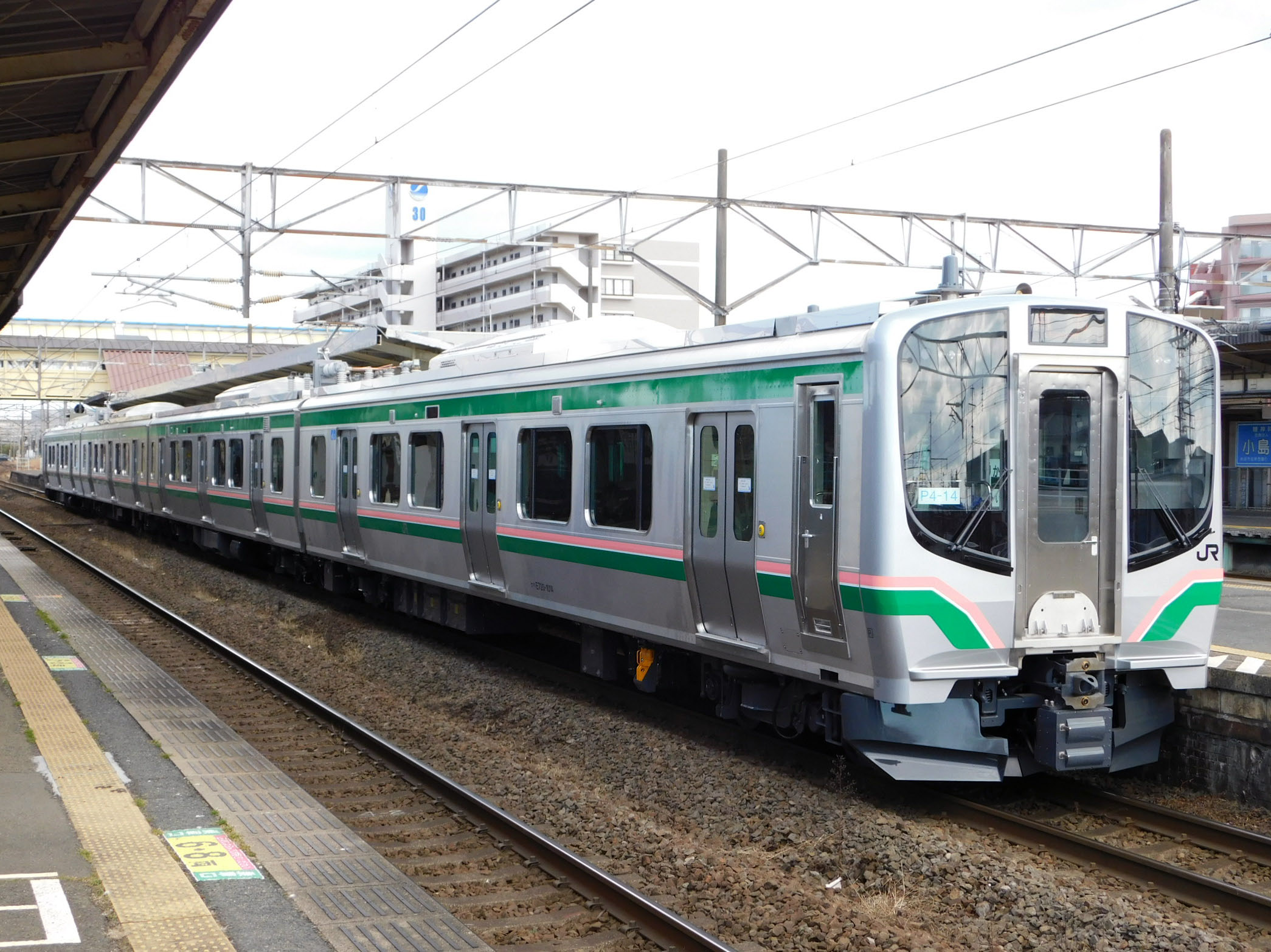 JR East E721-1000 series EMU set P4-14 at Iwanuma Station